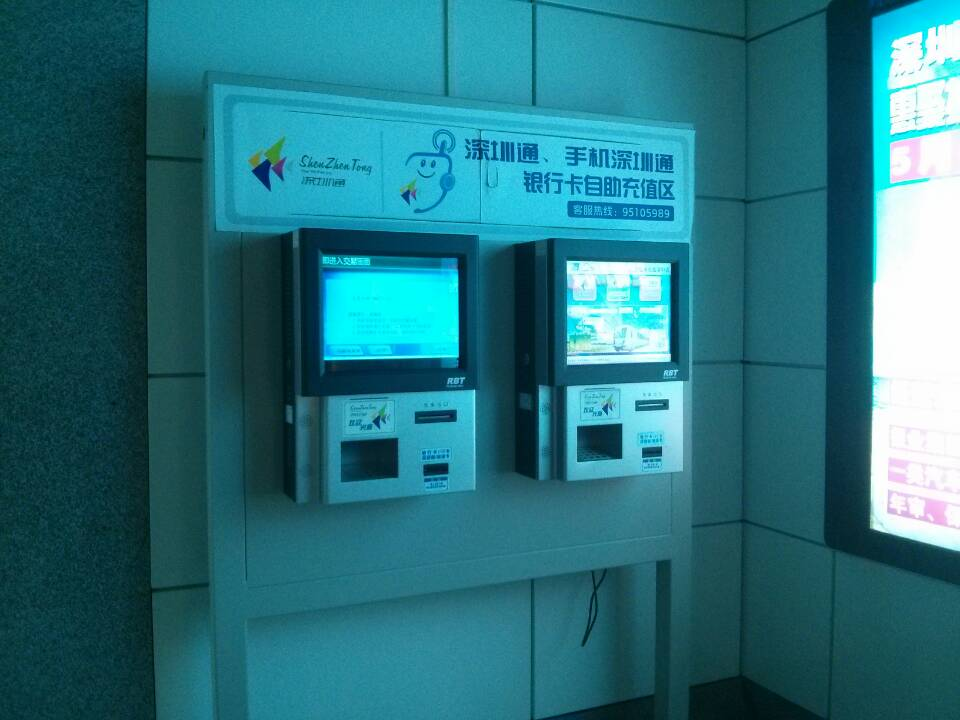 Shenzhen Tong Add Value Machine (bank card).